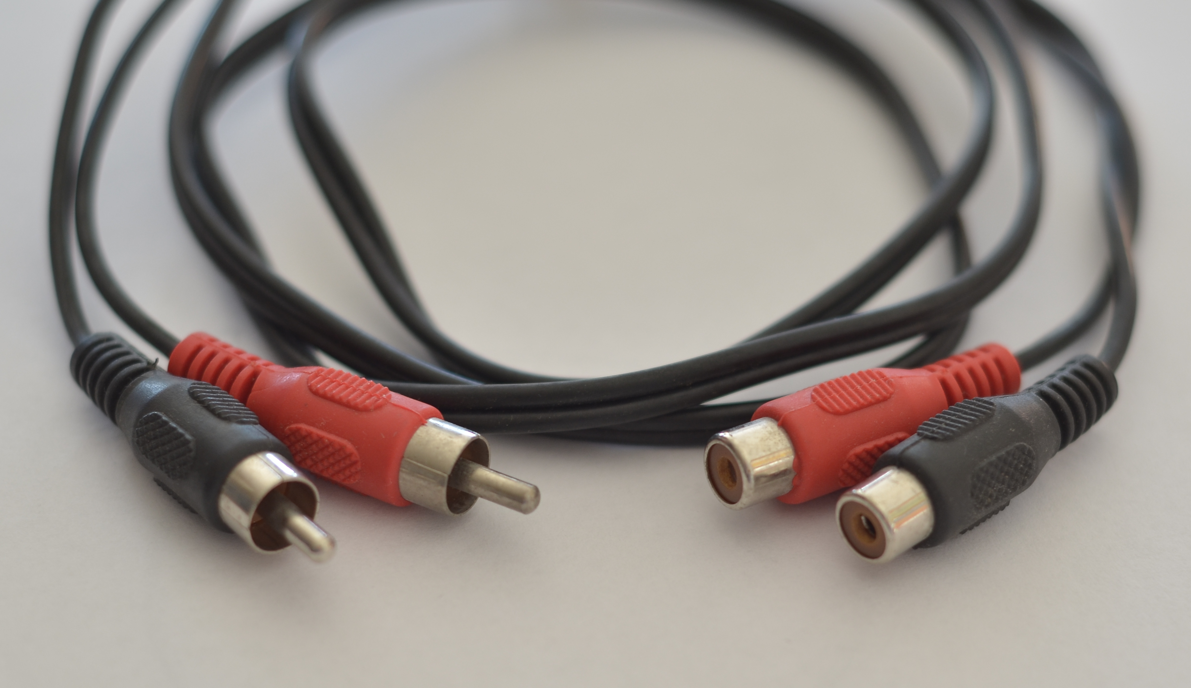 Audio RCA male and female cable